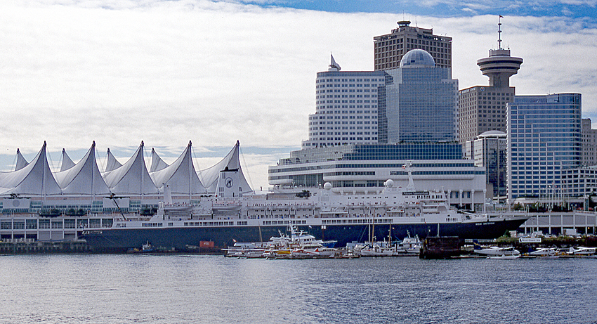 Holland America cruise ship Nieuw Amsterdam at Vancouver in 1999. Scanned from a Fujichrome 35mm slide. Other names: Patriot, Thomson Spirit, Mariella Spirit Information about the vessel may be found at IMO 8024014.A ship can change name and flag state through time, but the IMO number remains the same through the hull's entire lifetime. As a result, it can be useful to identify a ship by using the IMO number.